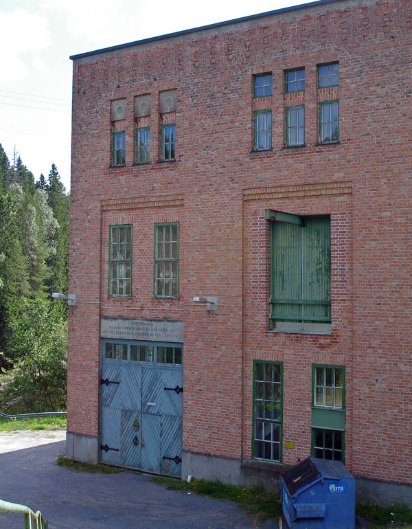 The hydroelectrical power station in Gideåbacka in river Gideälven, Sweden. It was built in 1919 to provide energy for the sulphate pulp and paper mill in nearby Husum. The power station has later been rebuilt into higher capacity.